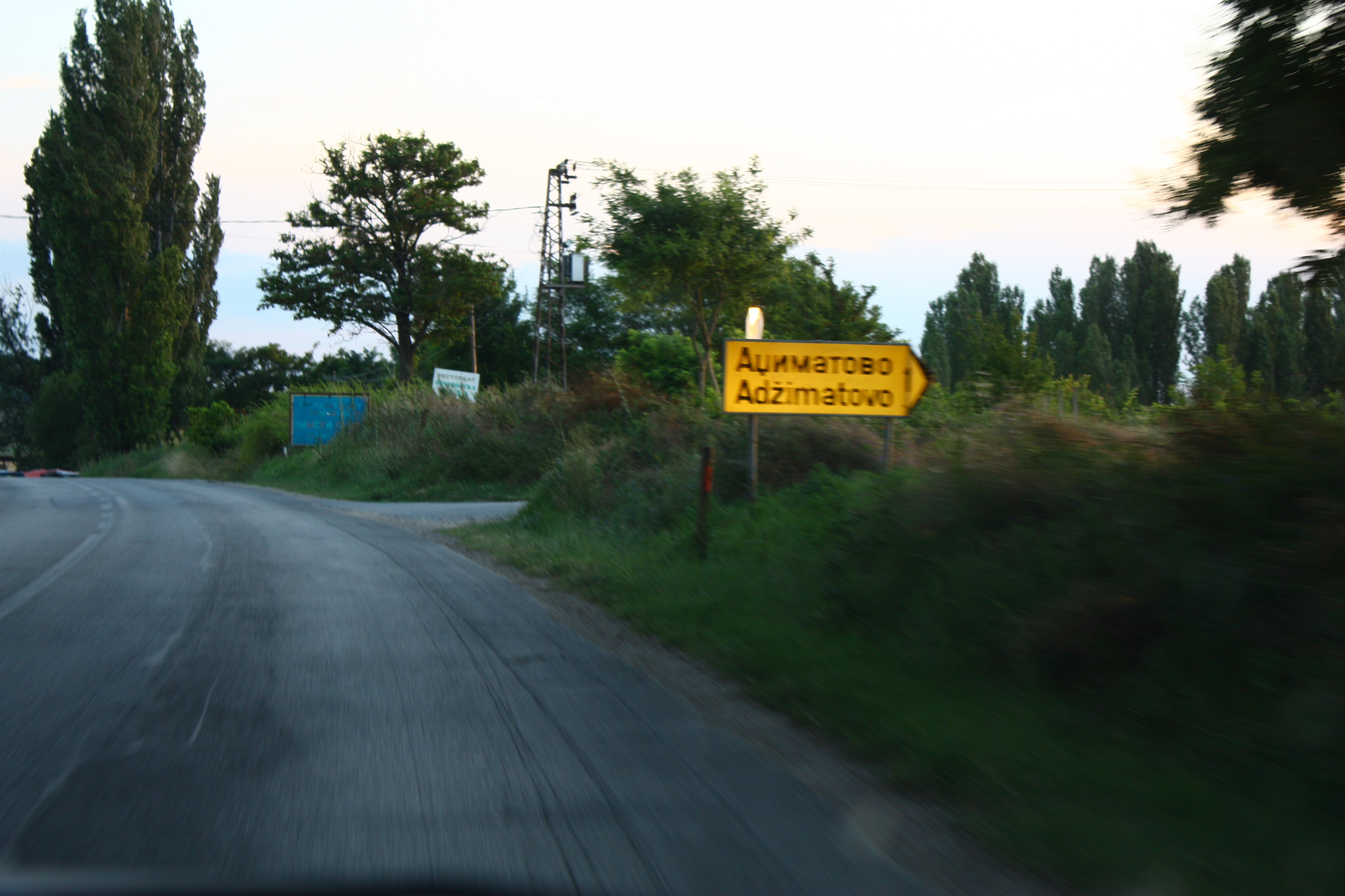 Road sign to Adžimatovo, Macedonia